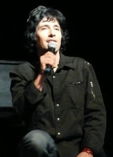 Kyle Vincent performs at the Vegetarian Summerfest in Johnstown, PA